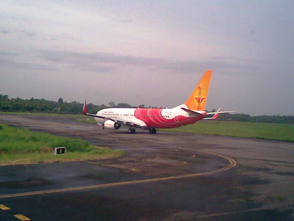 Air India Express aircraft at Cochin International Airport in Kochi, India